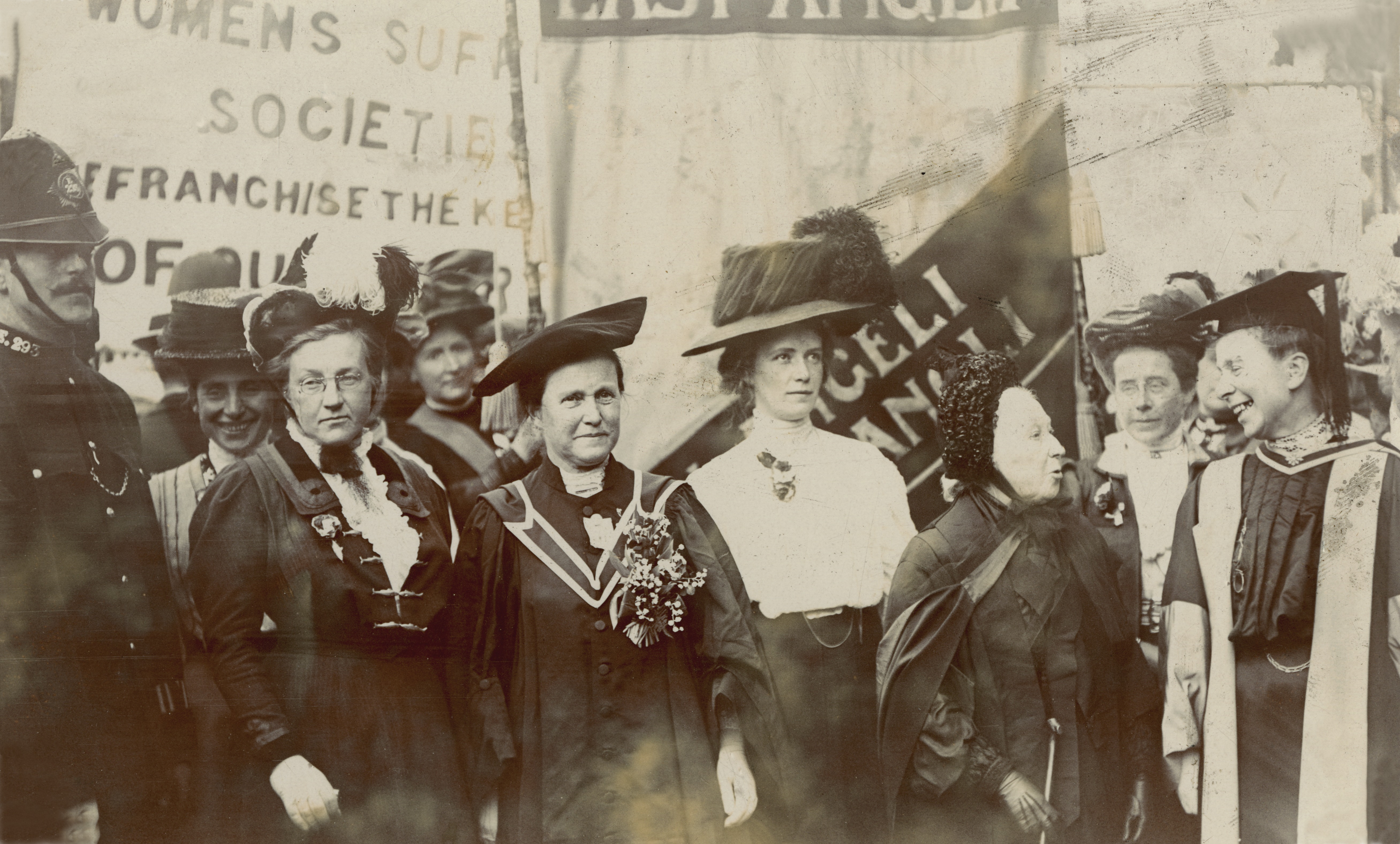 7JCC/O/02/145 Photograph, printed, paper, monochrome, Frances Balfour, Millicent Fawcett, Ethel Snowden, Emily Davies and Sophie Bryant standing together at a suffrage demonstration; manuscript inscription on reverse Women's Suffrage Procession. lady Frances Balfour, Mrs Henry Fawcett LLB, Mrs Philip Snowden, Miss Emily Davies and Mrs Sophie Bryant', printed 'The Sport and General Illustration Co'. The image has been trimmed